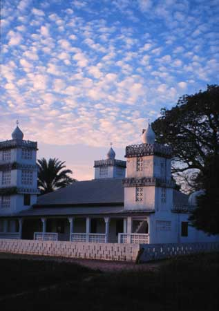 He write: Go ahead and use as many as you want. If you need to have them in a higher resolution, that could be arranged. But preferably you can use them as they are. Håvard Comment from photograph in norsk: : "Bansang - den største byen i innlandet"